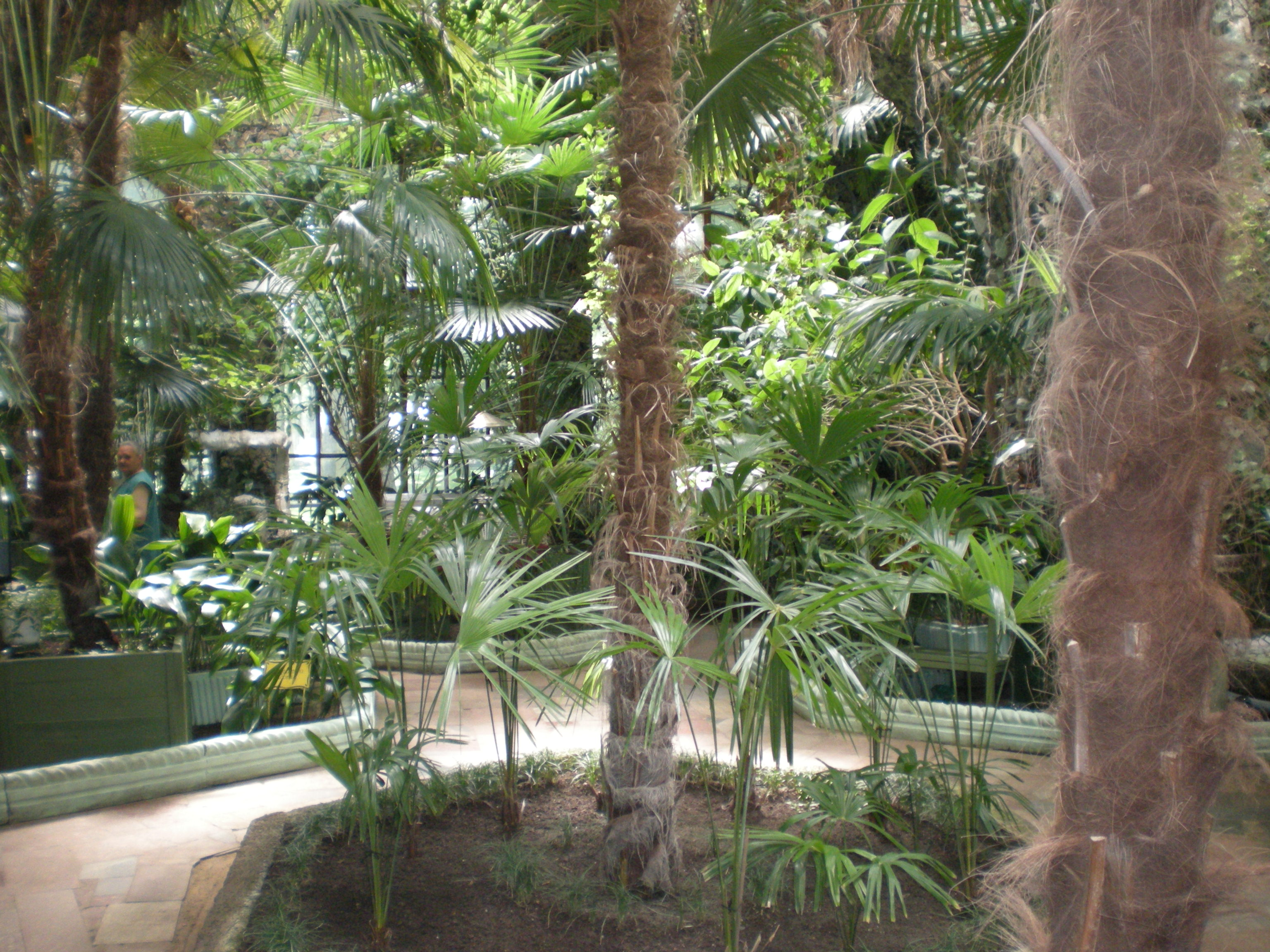 Inside jf Gomel greenhouse